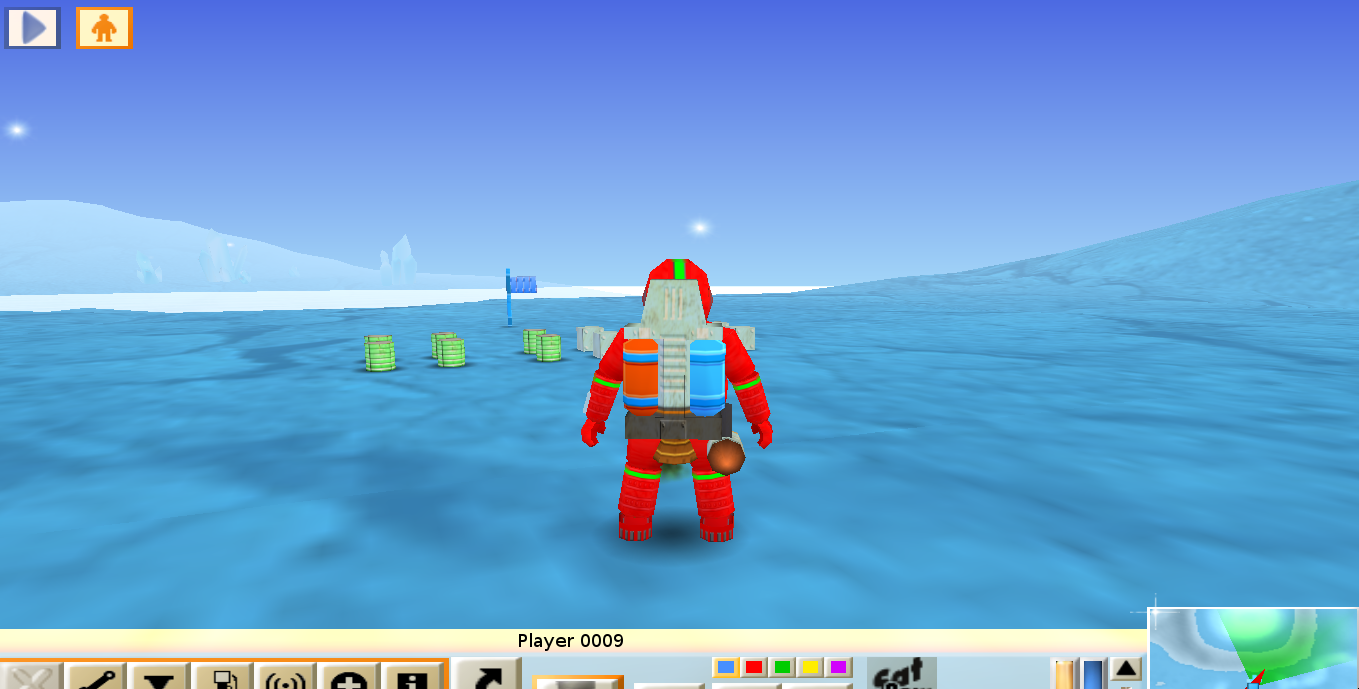 This si a screenshot of colobot game